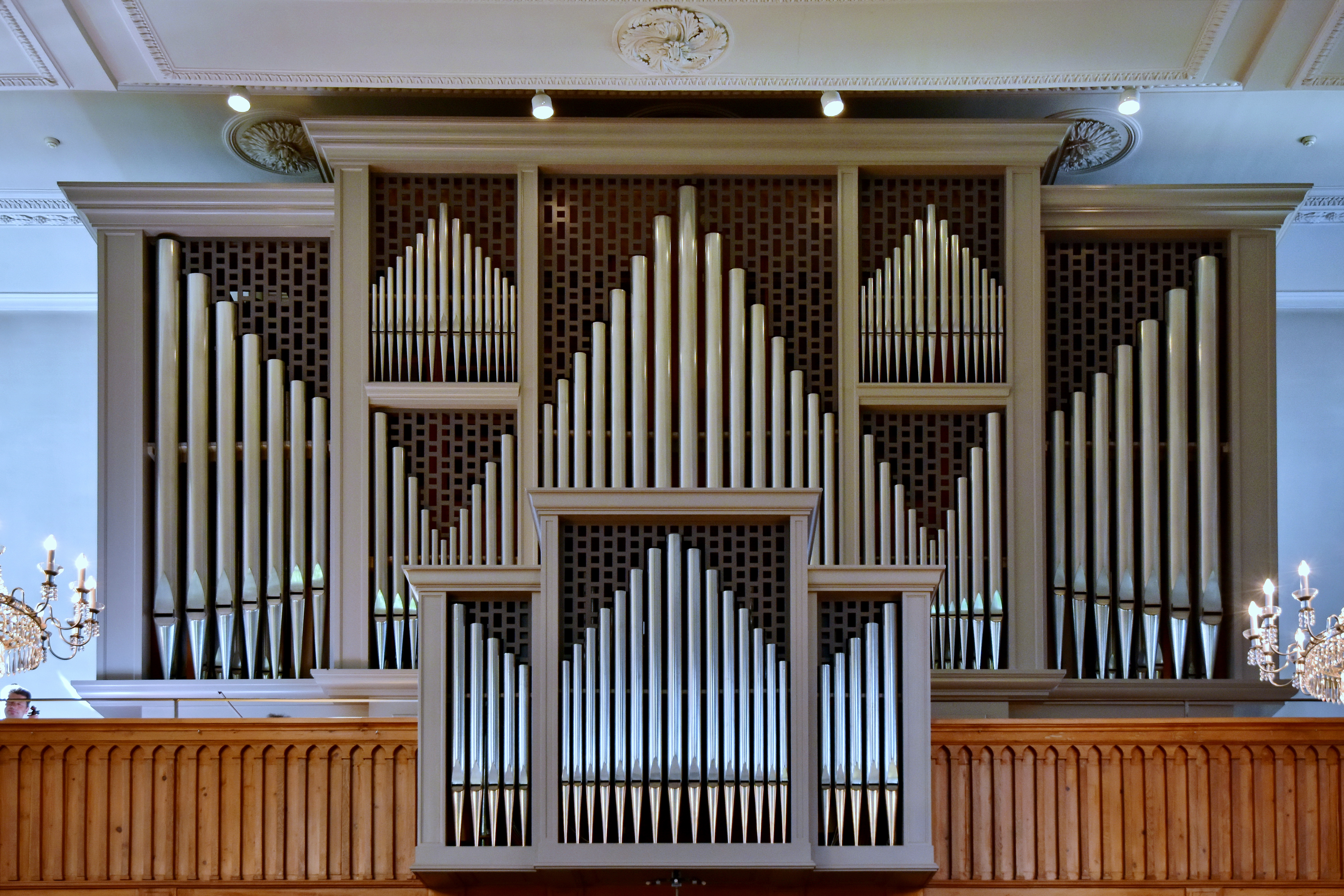 Reformierte Kirche in Uster